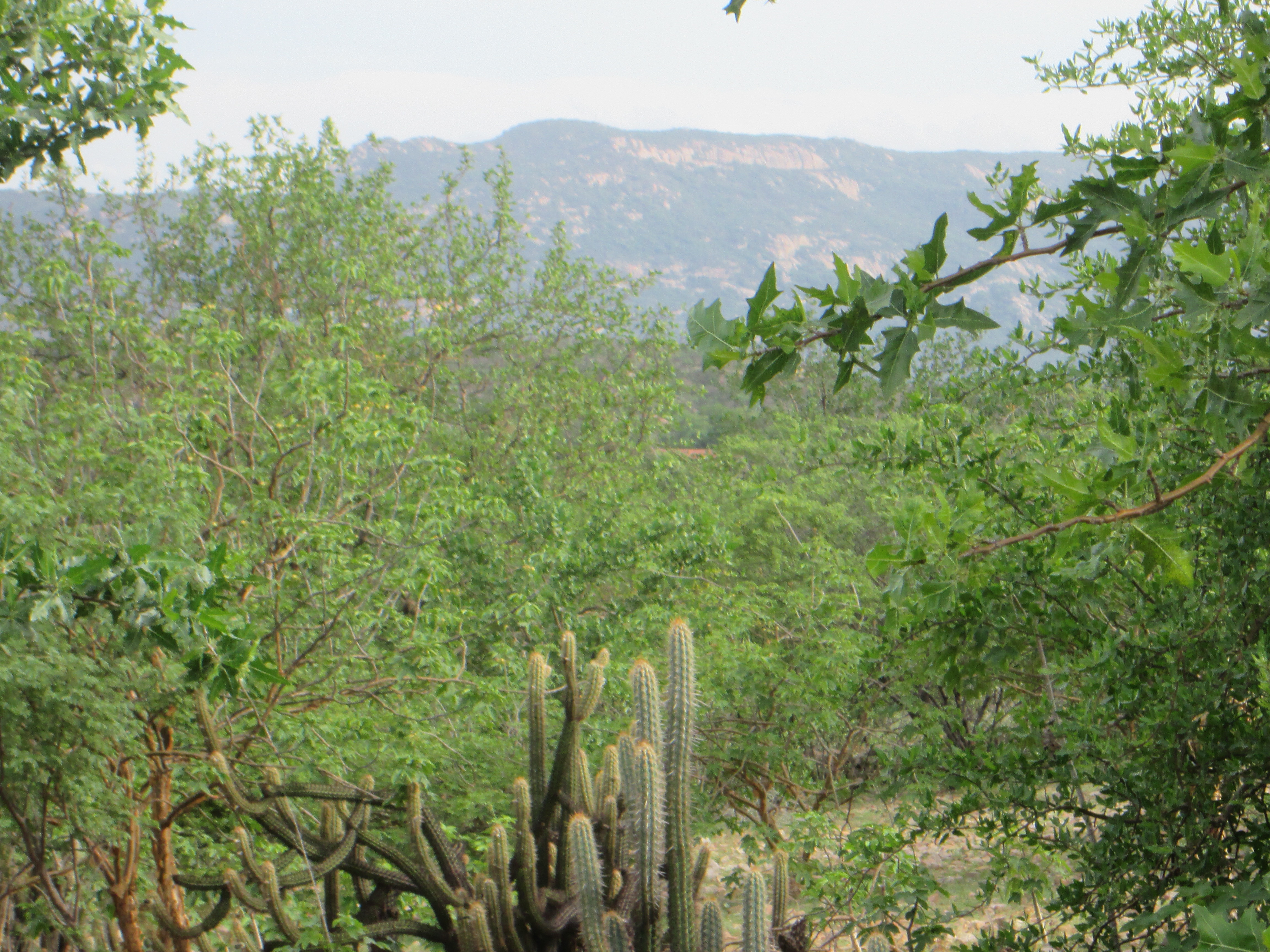 Bioma Caatinga, Serra de São Bernardo - Caicó (RN)